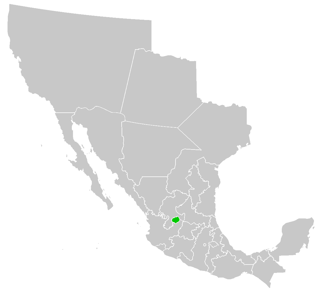 Map of the former Mexican territory of Aguascalientes